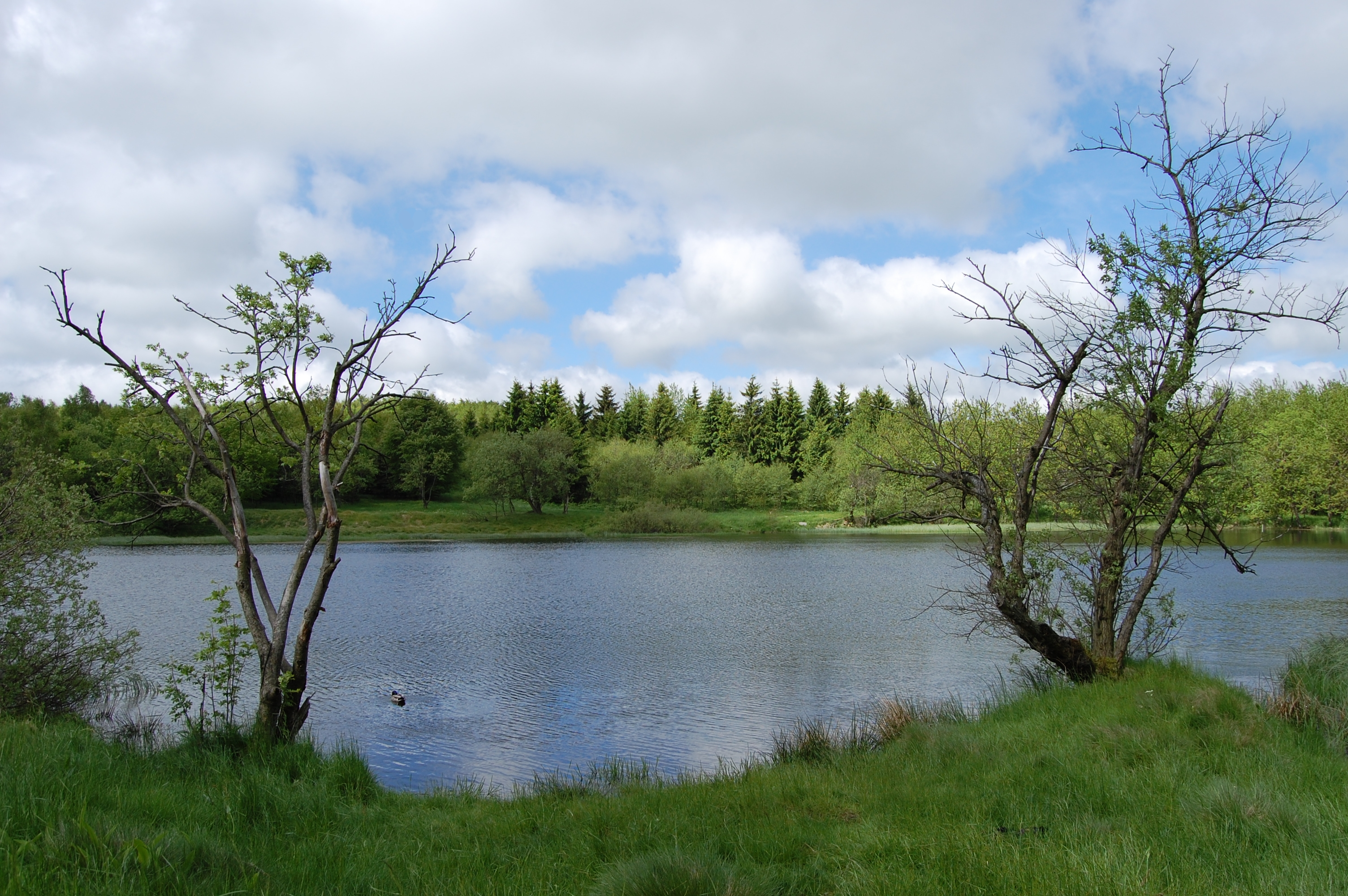 Upper Pond near Krásný Les in Ore Mountains